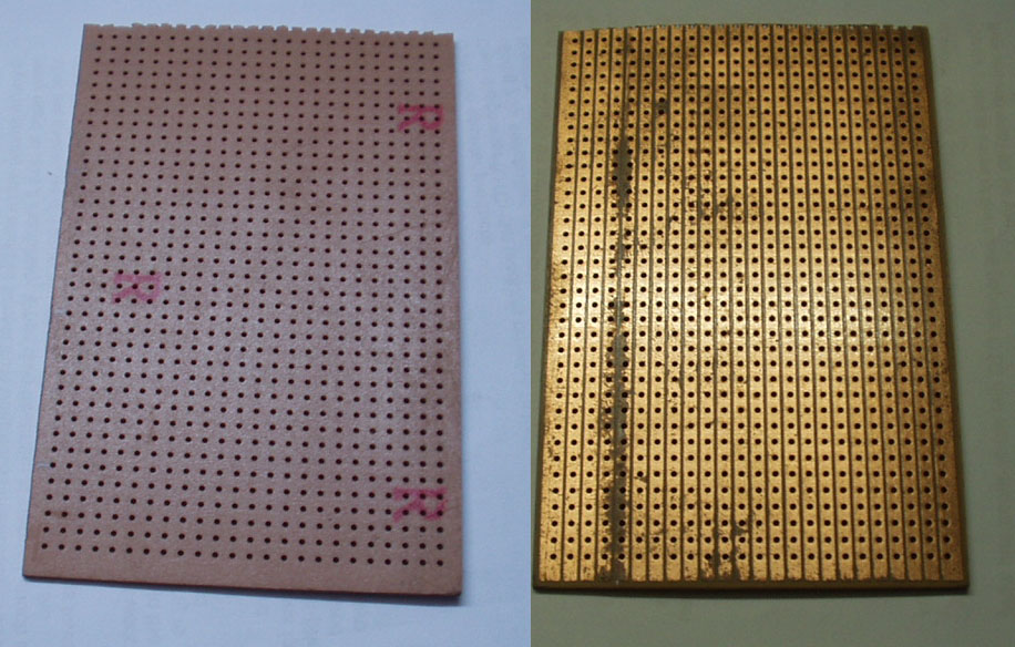 board for making circuit.--Mamun2a 09:07, 1 October 2006 (UTC)